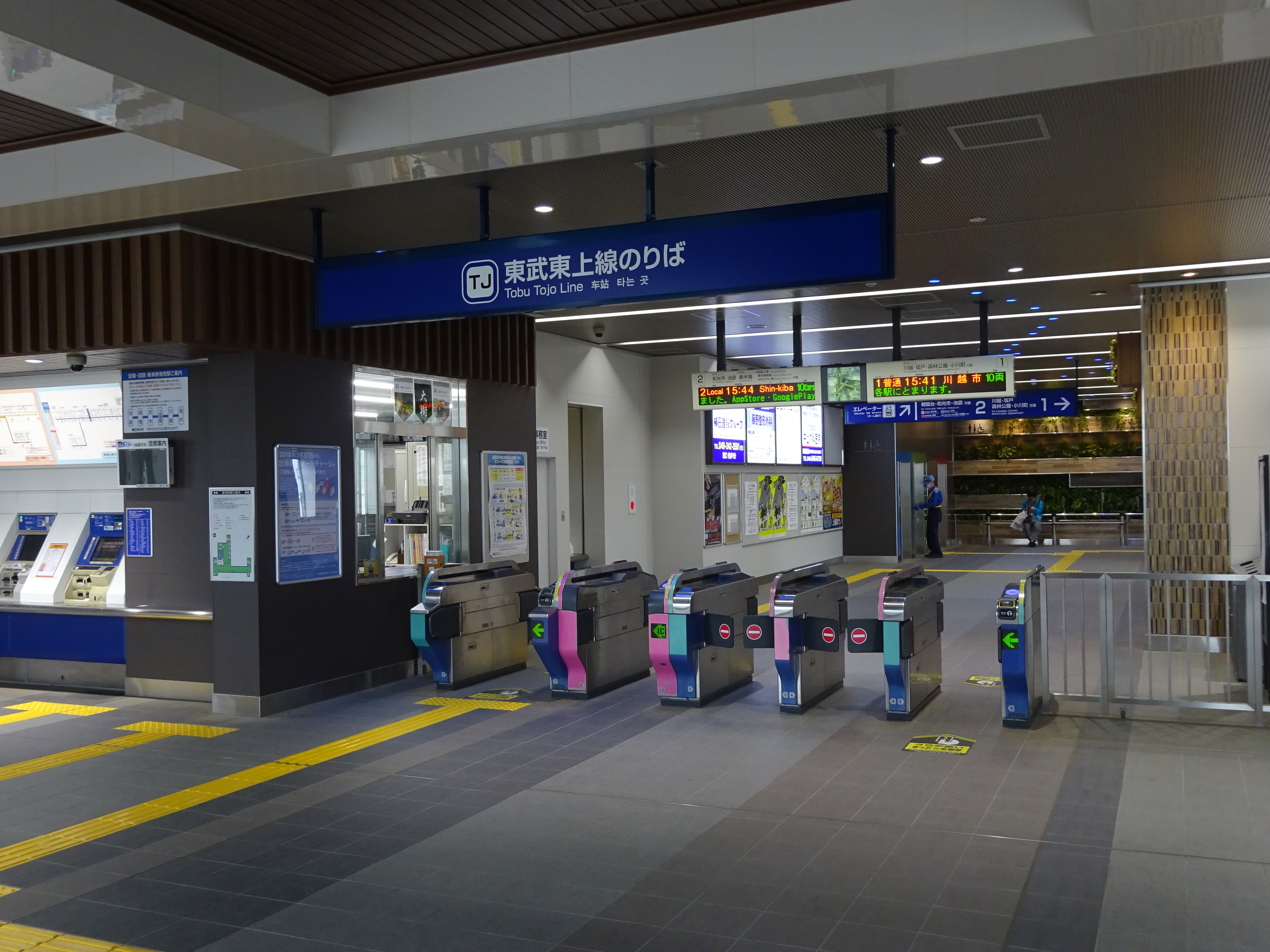 Ticket barriers of Shingashi Station